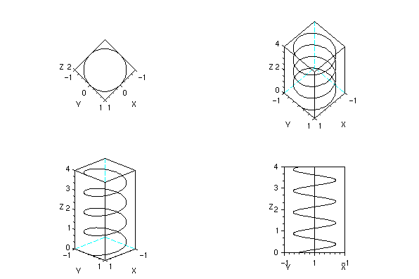 Different views of helices